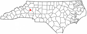 Category:North Carolina Dot Maps